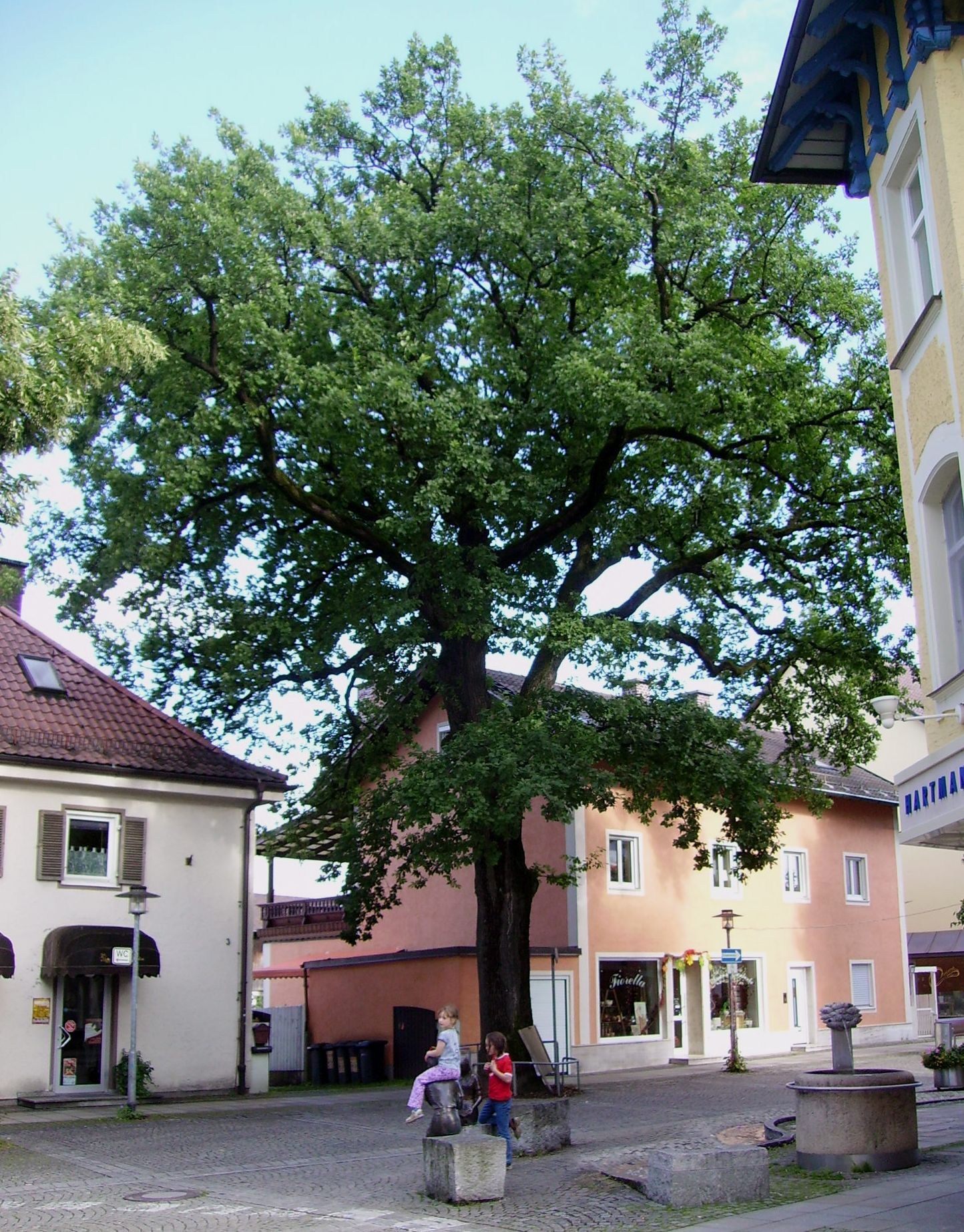 town in Germany